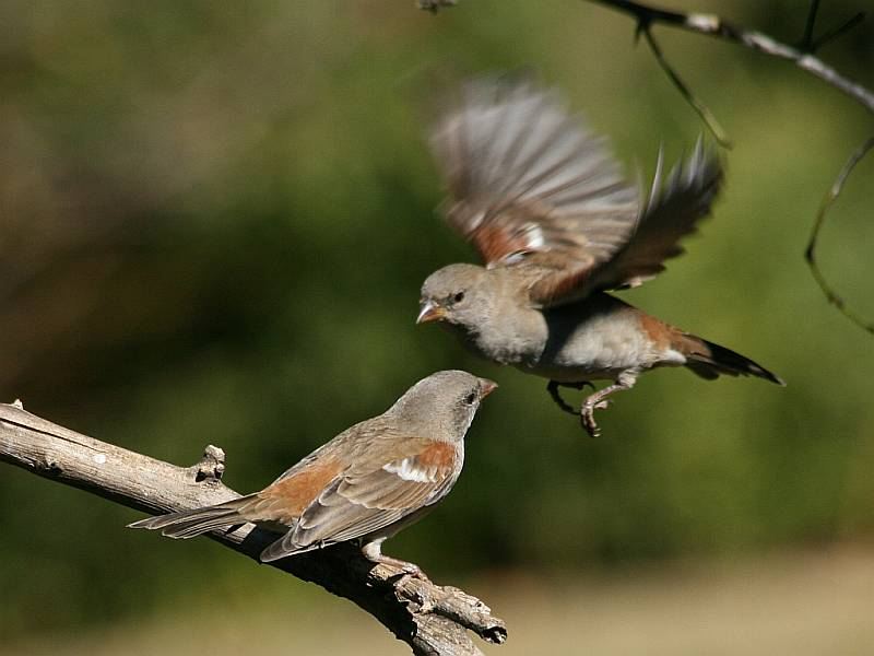 Two Southern Grey-headed Sparrows (Passer diffusus), one in flight. "The birds were attracted to the seed feeder in our garden".